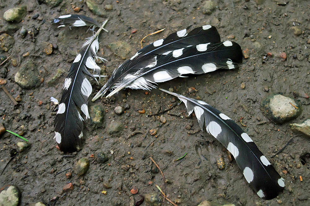 Wing feathers of a Great spotted woodpecker (Dendrocopos major), found in a dry creek within a deciduous forest.